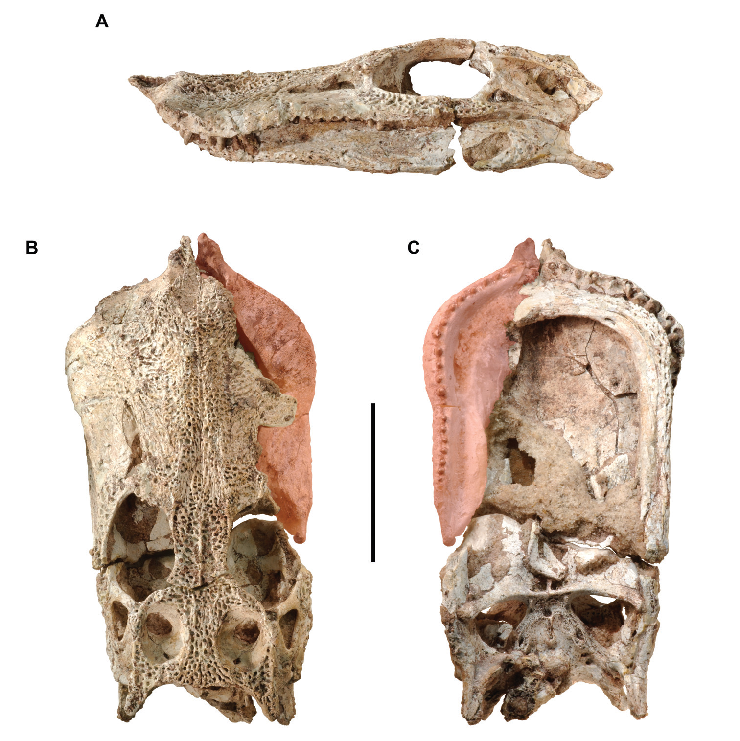 Skull of the crocodyliform Anatosuchus minor. Partial skull in articulation with the atlas and the anterior portion of the axis (MNN GAD17). A Lateral view. B Dorsal view. C Ventral view. Pink tone indicates restored snout margin. Scale bar equals 5 cm.